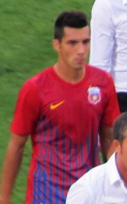 Paul Pârvulescu playing for FC Steaua București